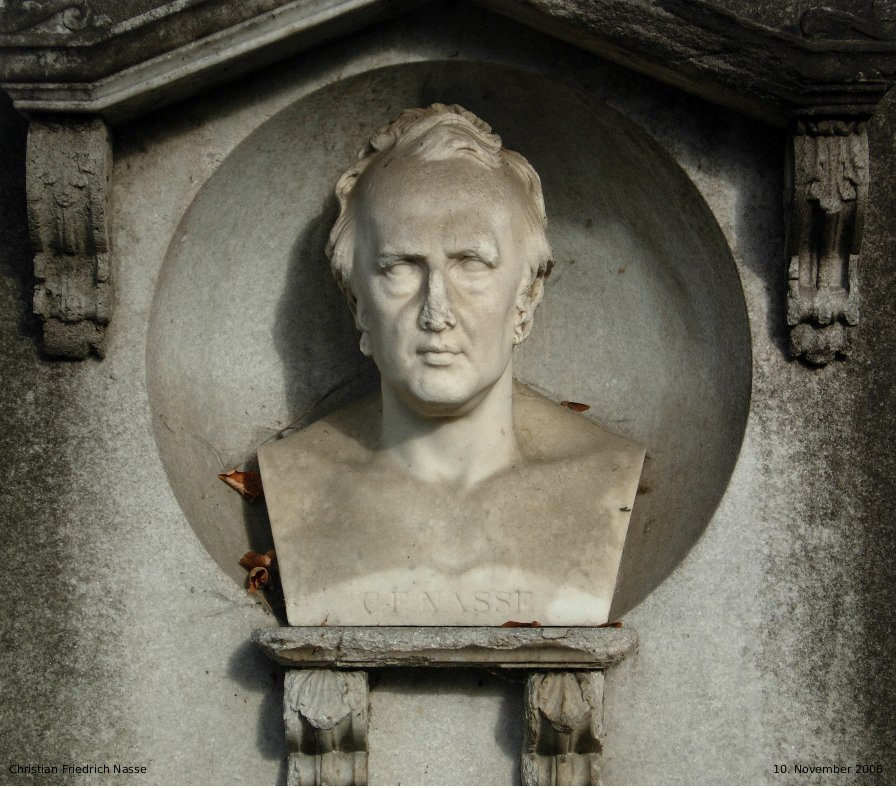 Bust of Christian Friedrich Nasse, Alten Friedhof in Bonn, Germany